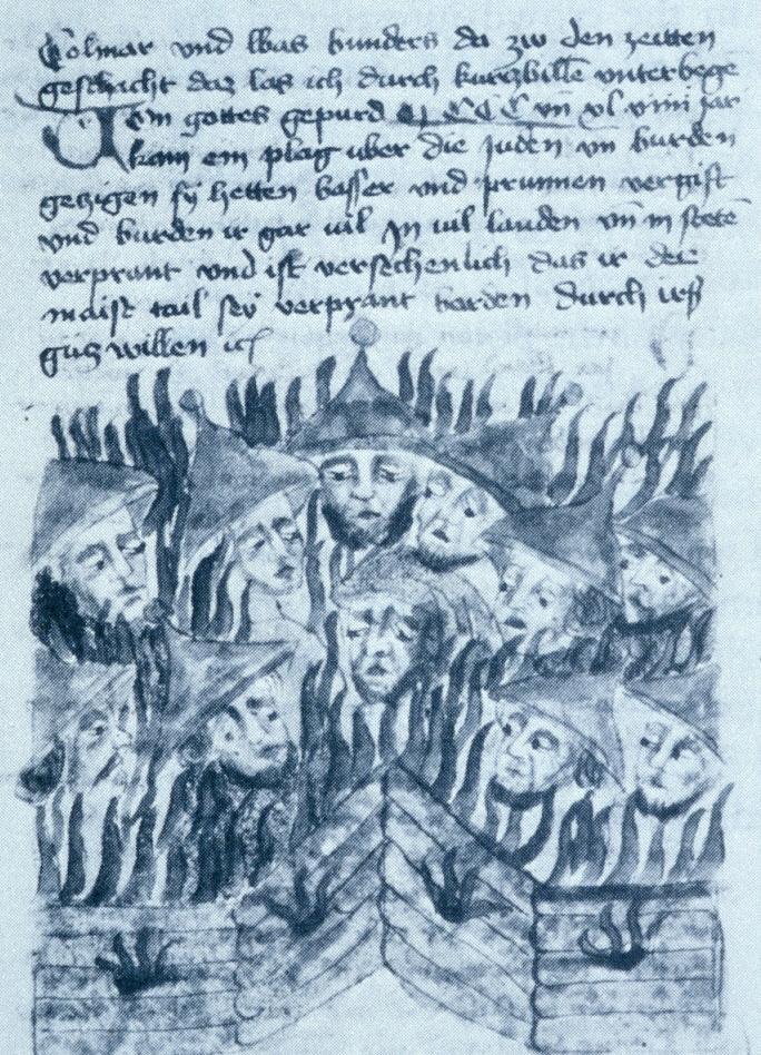 burning ang killin of Jews by Folkmar, Prague